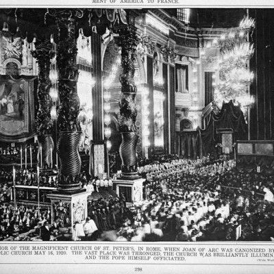 Canonization of Jeanne d'Arc 16 May 1920 by Pope Benedict XV in St.Peter’s Bernini's gloria